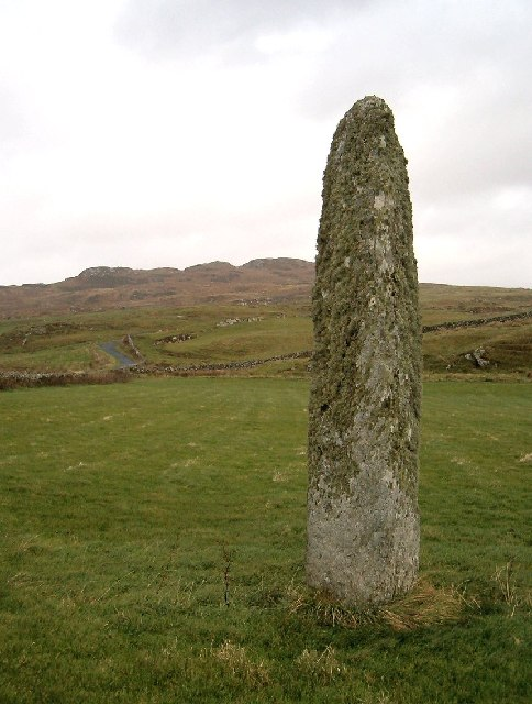 Standing Stone near Port Ellen, Isle of Islay.